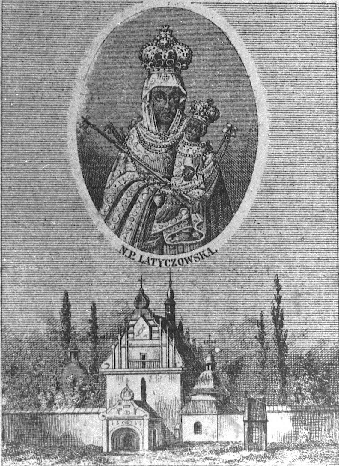 Key words: Letychiv, Church, Icon The Assumption Church in Letichev and its Icon. From a postcard, circa 1900.